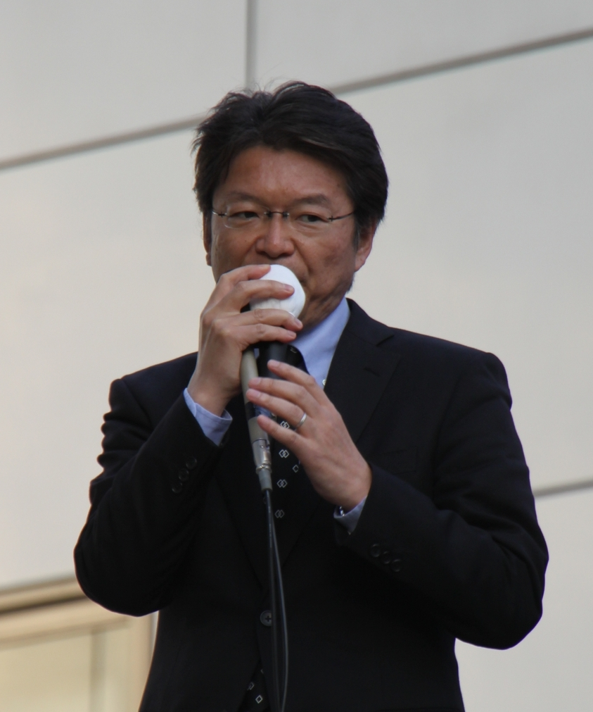 Akira Nagatsuma, Member of the House of Representatives, made a speech at Yūrakuchō Center Bldg. in Chiyoda Ward, Tōkyō Metropolis on May 15, 2009.